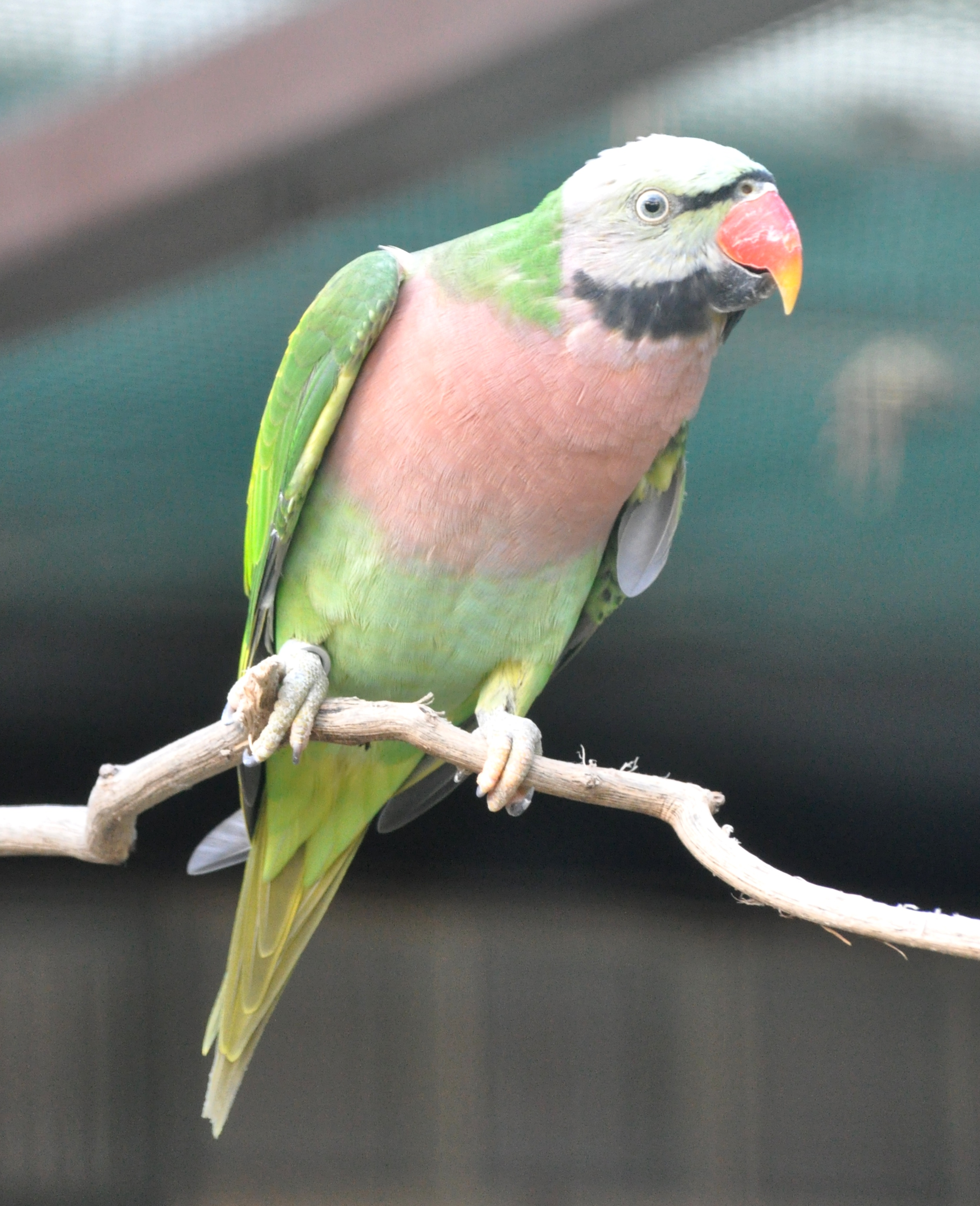 Moustached Parakeet in the Walsrode Bird Park, Germany.